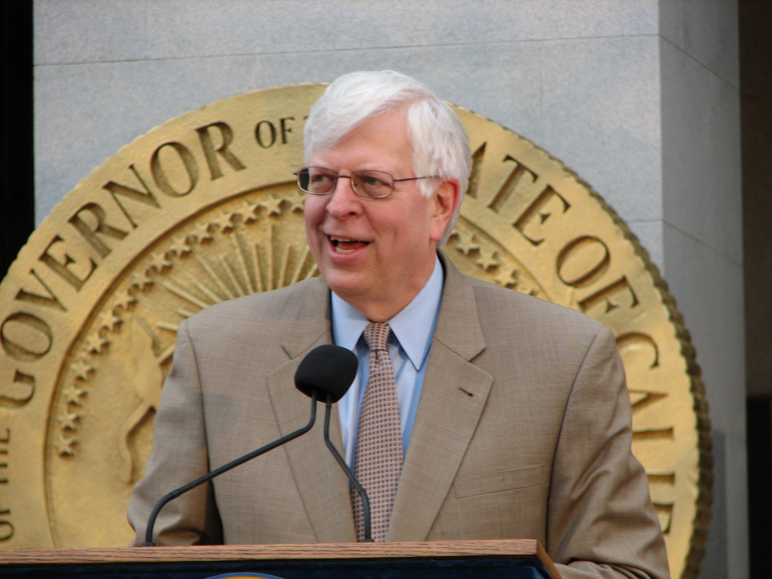 American radio talk show host, columnist, and author Dennis Prager at the menorah lighting at the California Capitol Building, Sacramento.